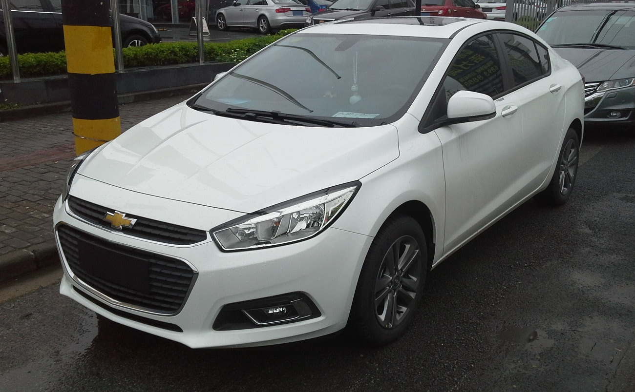 Chevrolet Cruze J400 CN photographed in Shanghai, China.